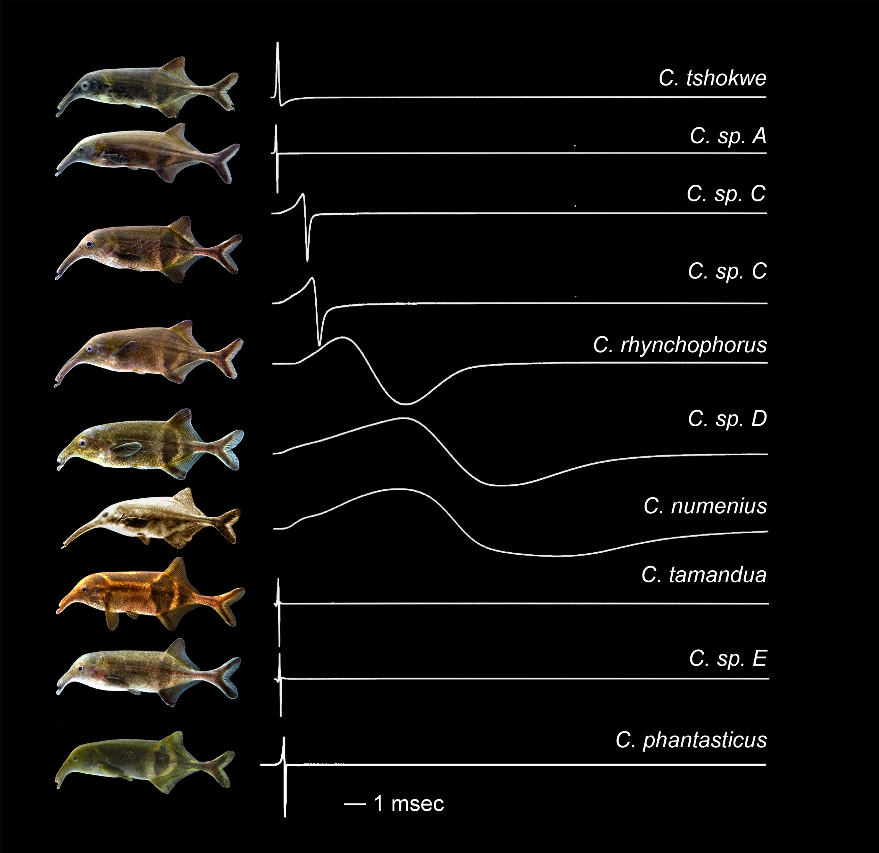 Recorded in South Africa by Carl Hopkins from Cornell University. EOD wave is presented as recorded in a head-positive/ tail-negative fashion. Campylomormyrus tshokwe species 1 (at the top) Campylomormyrus sp. A species 2 Campylomormyrus sp. C species 3 (looks like an error: it should be sp. B) Campylomormyrus sp. C species 4 Campylomormyrus rhynchophorus species 5 Campylomormyrus sp. D species 6 Campylomormyrus numenius species 7 Campylomormyrus tamandua species 8 Campylomormyrus sp. E species 9 Campylomormyrus phantasticus species 10 (at the bottom)